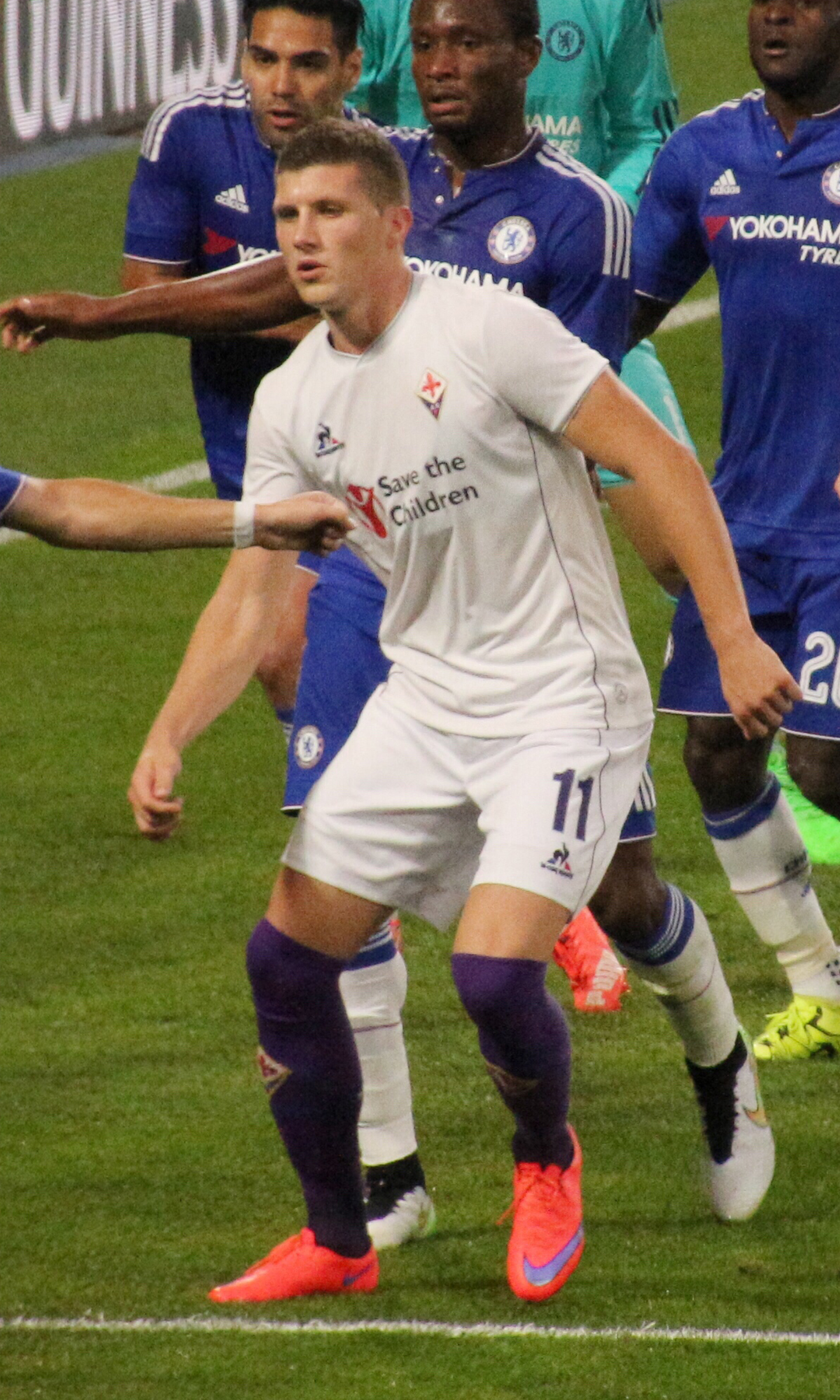 Ante Rebic is a Croatian professional footballer who plays as a forward for Serie A club Fiorentina.